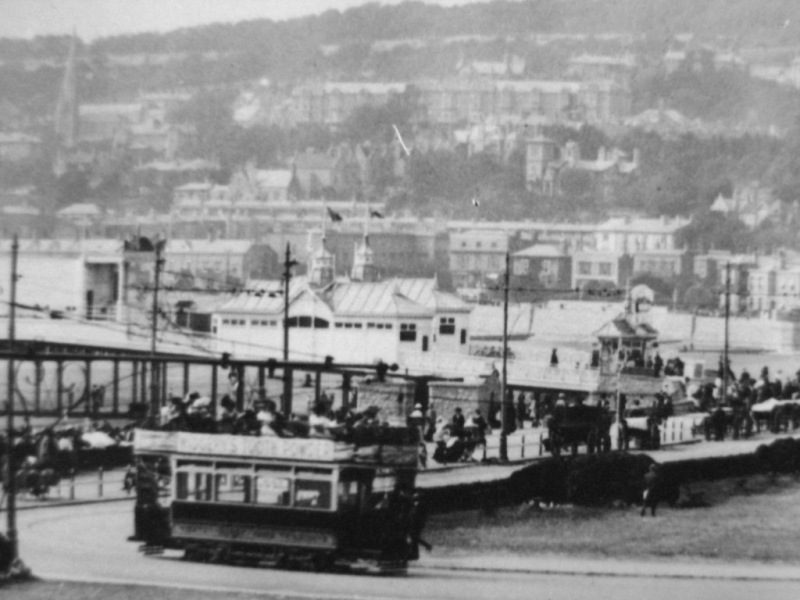 A Weston-super-Mare tramcar (believed to be car number 1) between the Grand Pier and Oxford Street junction.